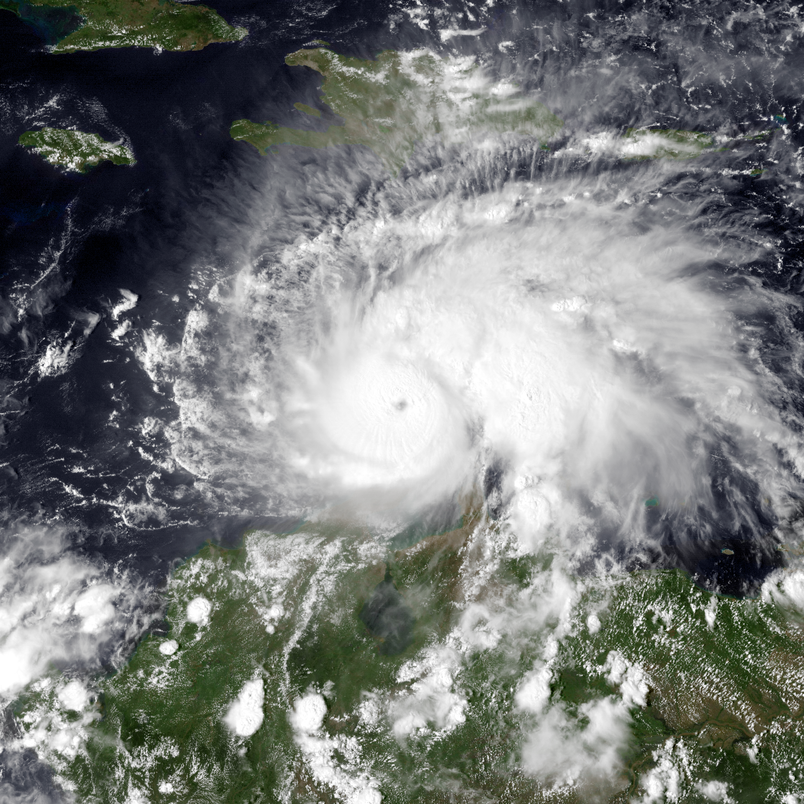 Visible satellite image of Matthew as a Category 4 hurricane at 1845 UTC on September 30, 2016, just off the coast of Colombia. The eye is clearly visible.